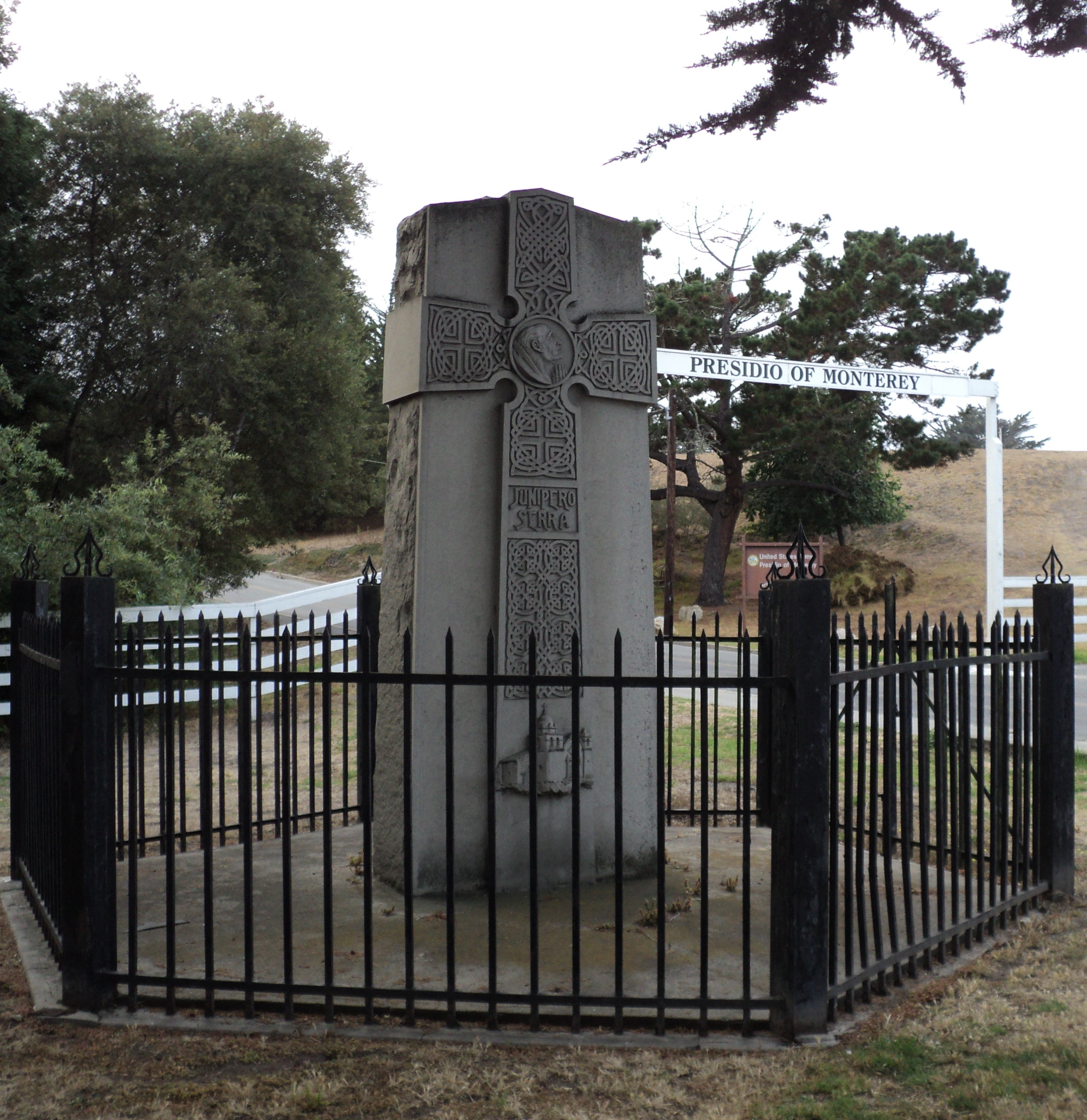 Monterey Old Town Historic District